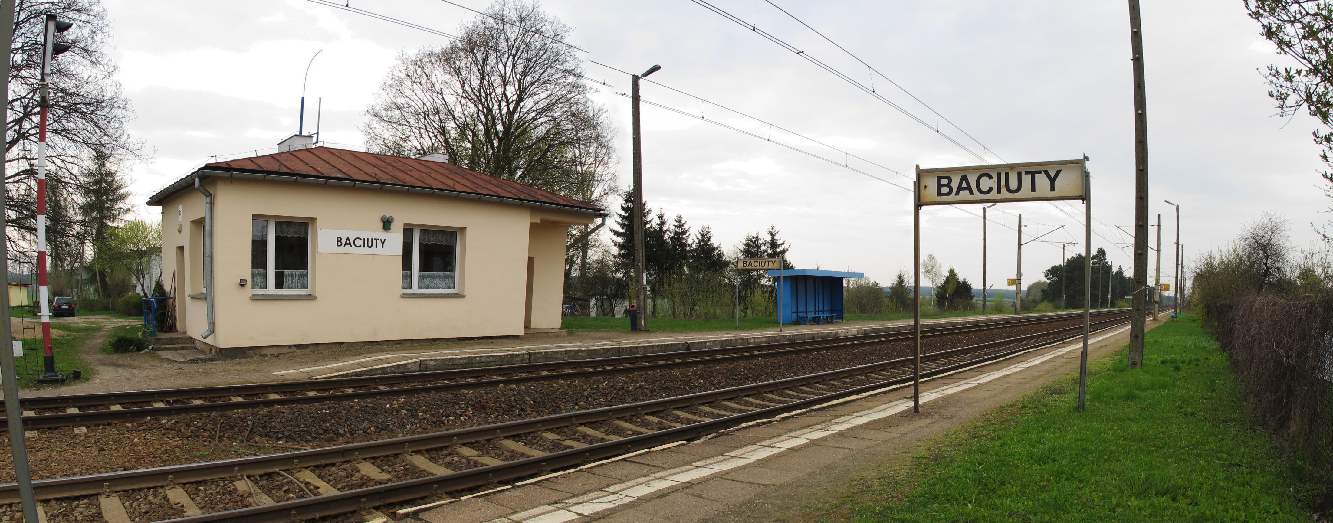 Baciuty (gmina Turośń Kościelna, podlaskie, Poland) train station on route 6 This image was created with Hugin.